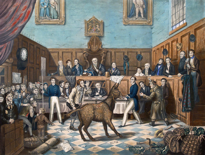 Painting by P. Mathews in or just after August 1838 of the Trial of Bill Burns, the first prosecution under the 1822 Martin's Act for cruelty to animals, after Burns was found beating his donkey. The prosecution was brought by Richard Martin, MP for Galway, also known as Humanity Dick, and the case became memorable because he brought the donkey into court. For more information about the painting and a later engraving, see here